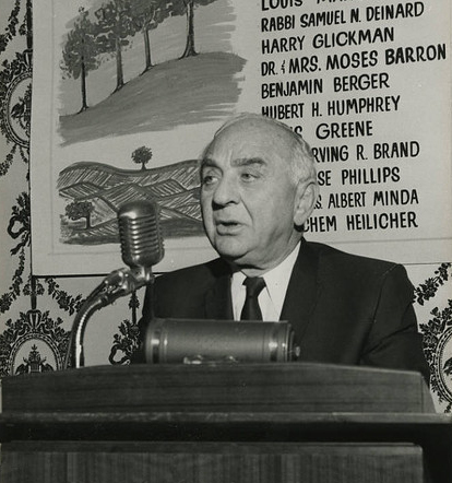 Ben Berger was a successful Minneapolis businessman and philanthropist, and an original co-owner of the Minneapolis Lakers. He was also a prodigious fundraiser. He is shown speaking at a Jewish National Fund dinner at Minneapolis's Pick-Nicollet Hotel. The Jewish National Fund raises money throughout the world to support tree planting and infrastructure projects in Israel. Date: 1/15/1967 Source: 17.5 x 24 Format: black and white commercial photograph Subject: Politics and government; Berger, Benjamin (1897-1988); Jewish National Fund; Fundraising Coverage: Minneapolis; Hennepin; Minnesota; United States Local Identifier: 14 Link to our record: From the Steinfeldt Photography Collection of the Jewish Historical Society of the Upper Midwest .